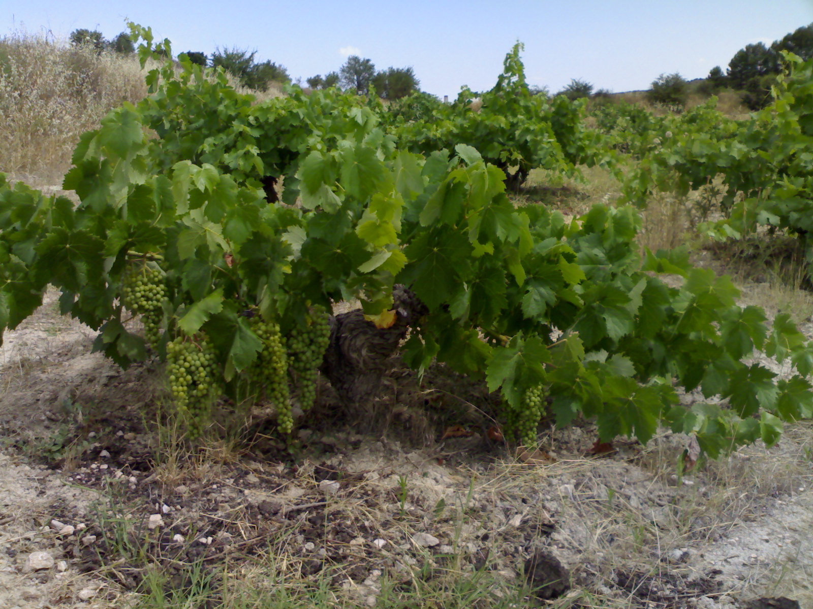 Airén variety grapevine, vineyard in Madrid region, Spain